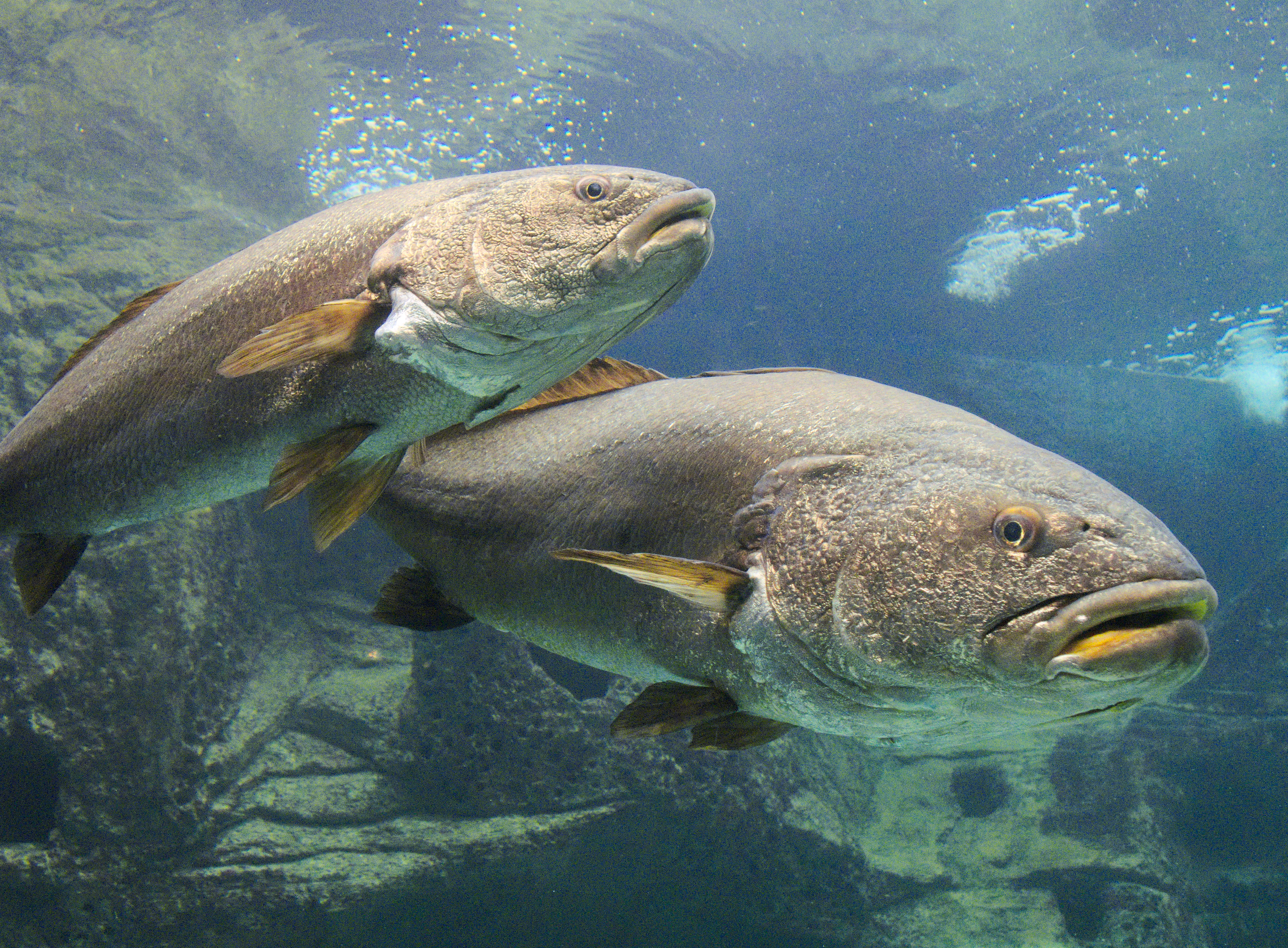 Two meagres (Argyrosomus regius) in Cretaquarium.